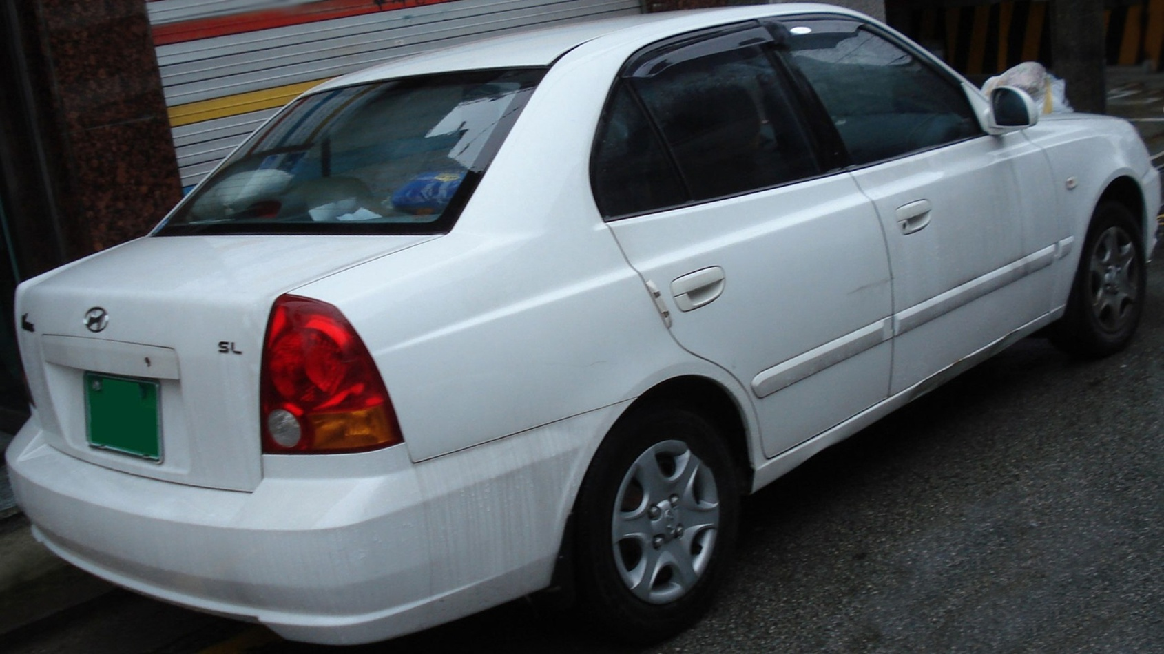 Hyundai New Verna